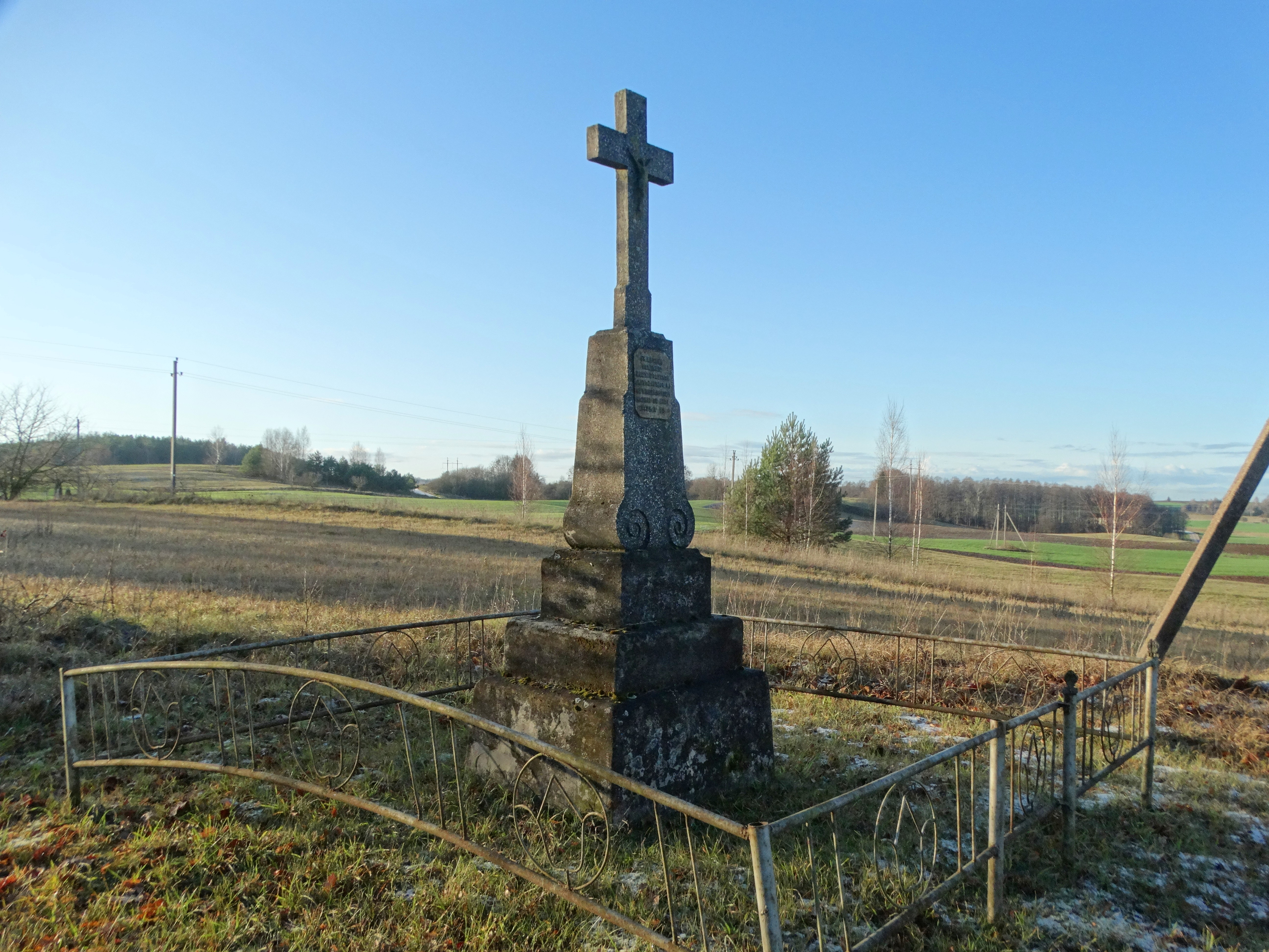 Wayside cross, Prienlaukys, Prienai district, Lithuania